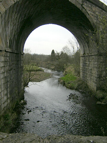 Levern Water Near Barrhead Levern Water passes under Glasgow to Kilmarnock railway line